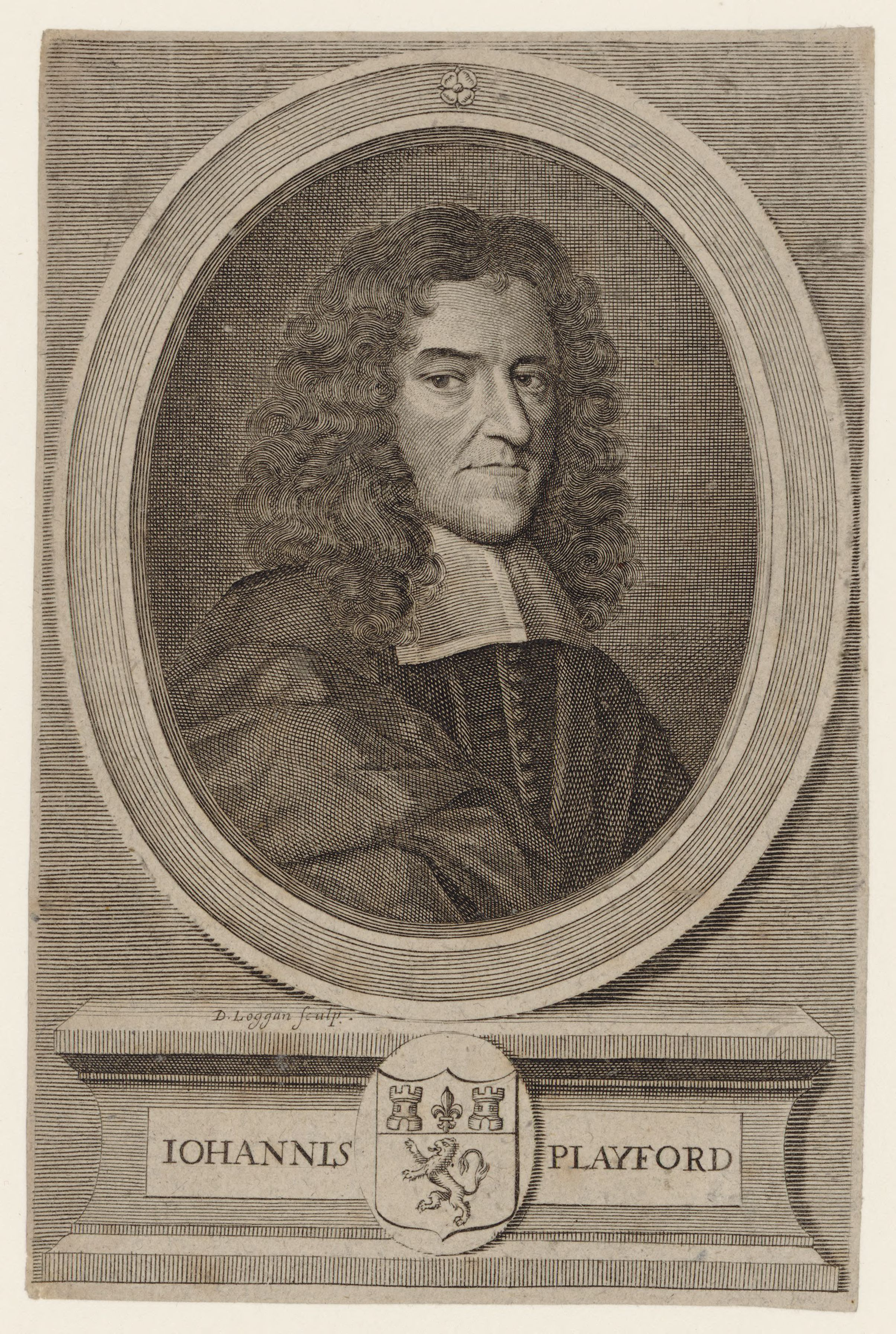 English music publisher John Playford (1623-1686) by David Loggan (1634-1692).